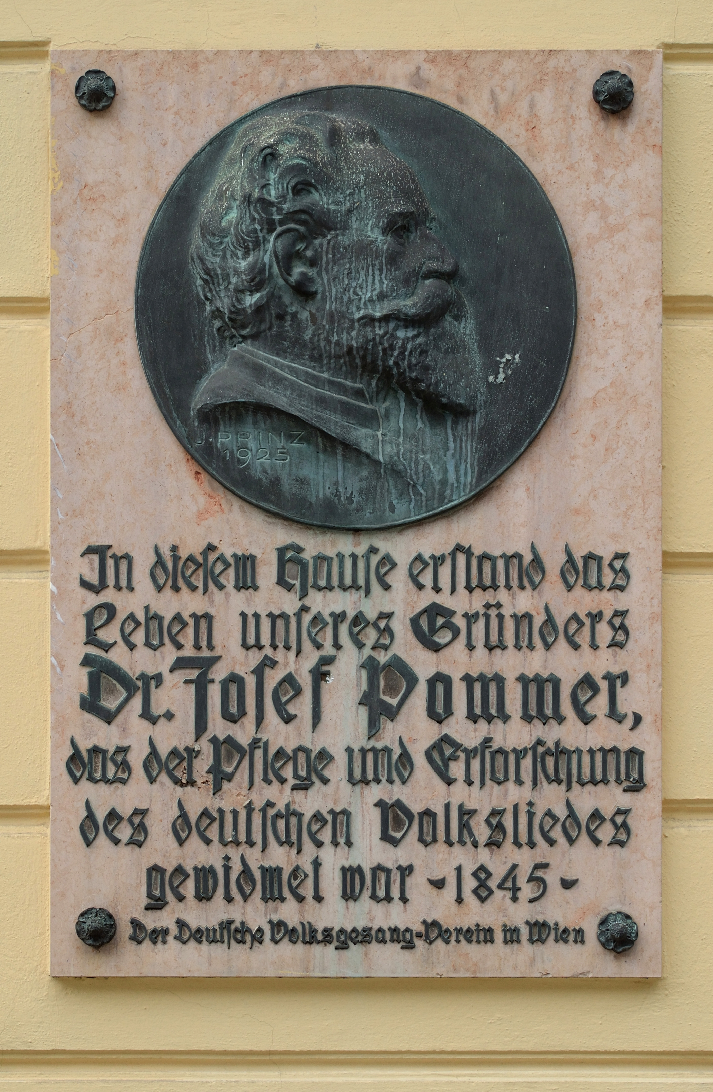 Plaque Josef Pommer, Mürzzuschlag, at the town hall, signed J. Prinz 1925.